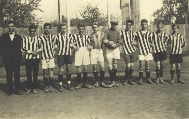 VS Sport Tallinn